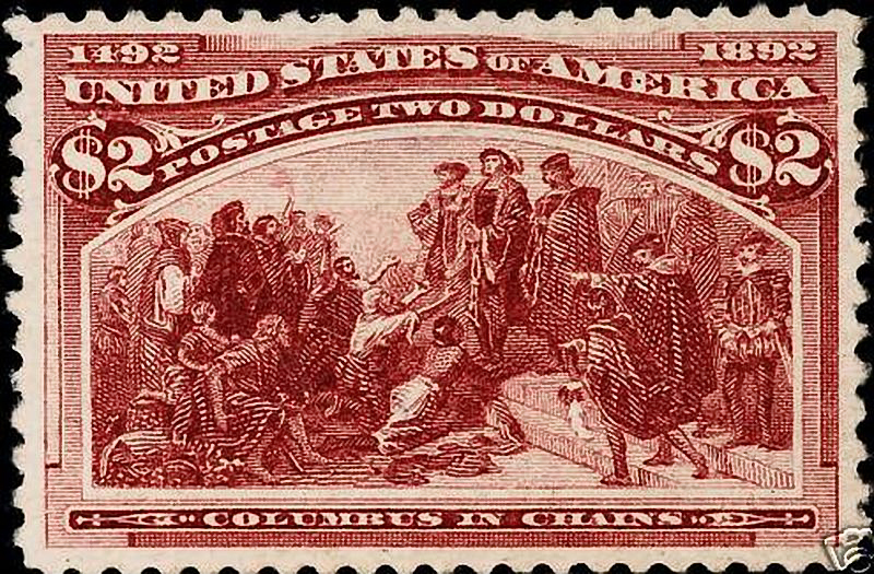 Columbian242-2$.jpg